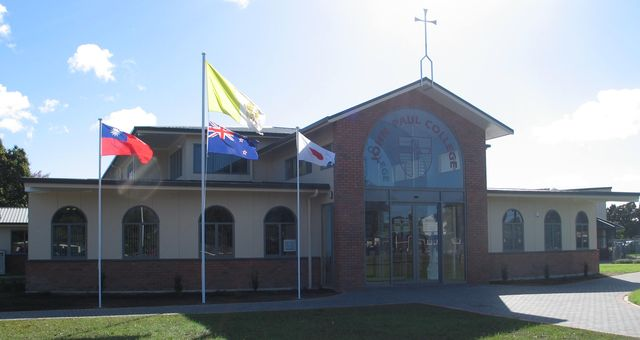 John Paul College, Rotorua, Administration Centre. Photographed April 2006.